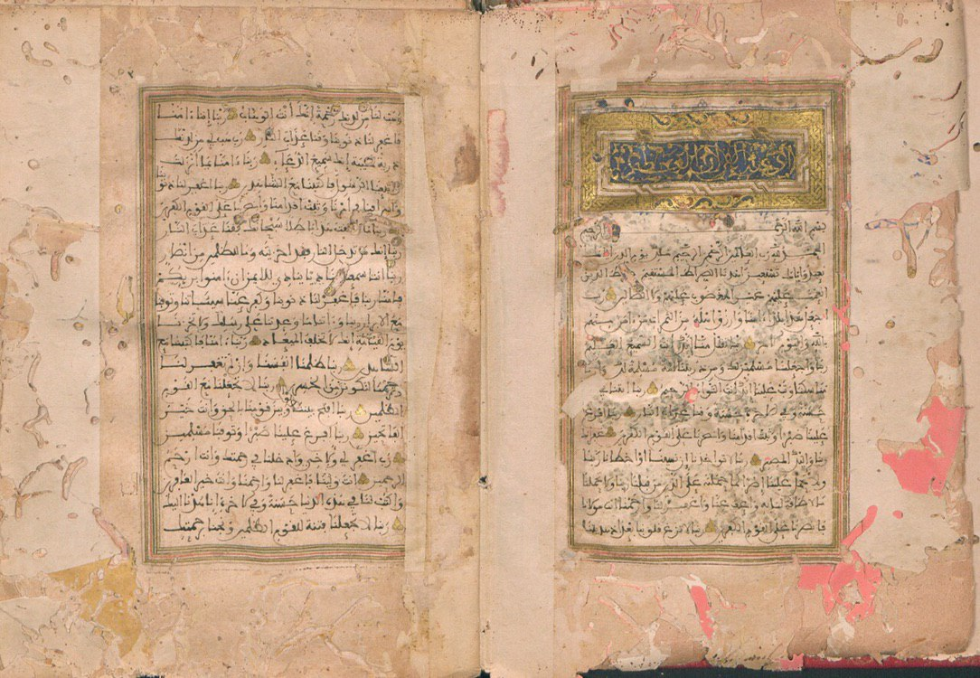 A book written by Al-Mansour Ahmed